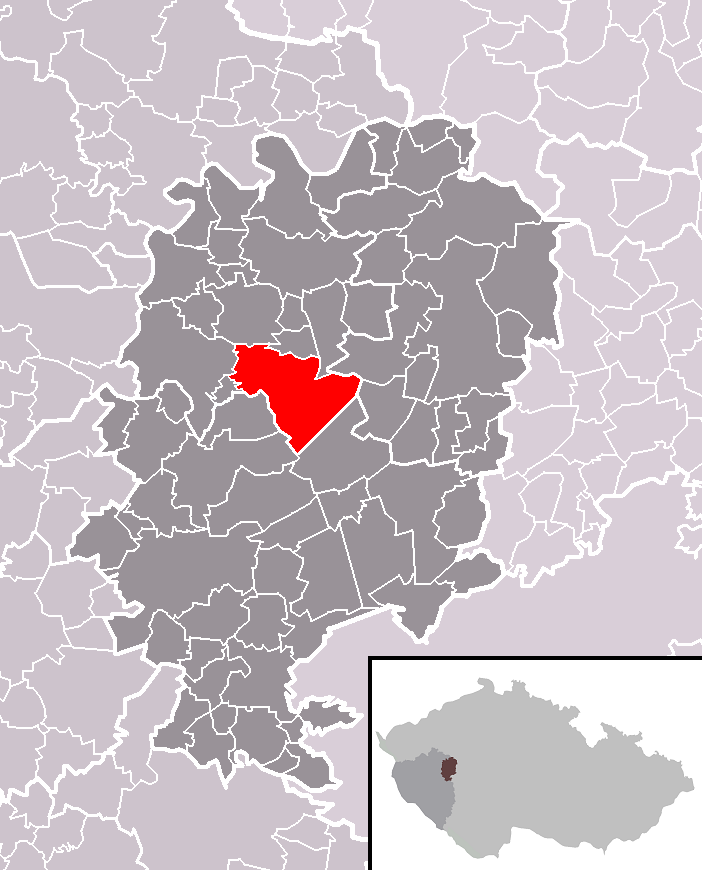 Location of Přívětice municipality within Rokycany District and within identical administrative area of Rokycany as a Municipality with Extended Competence.